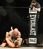 Jeff Monson vs Sergej Maslobojev in the Cage Wars Championship event "Decade".